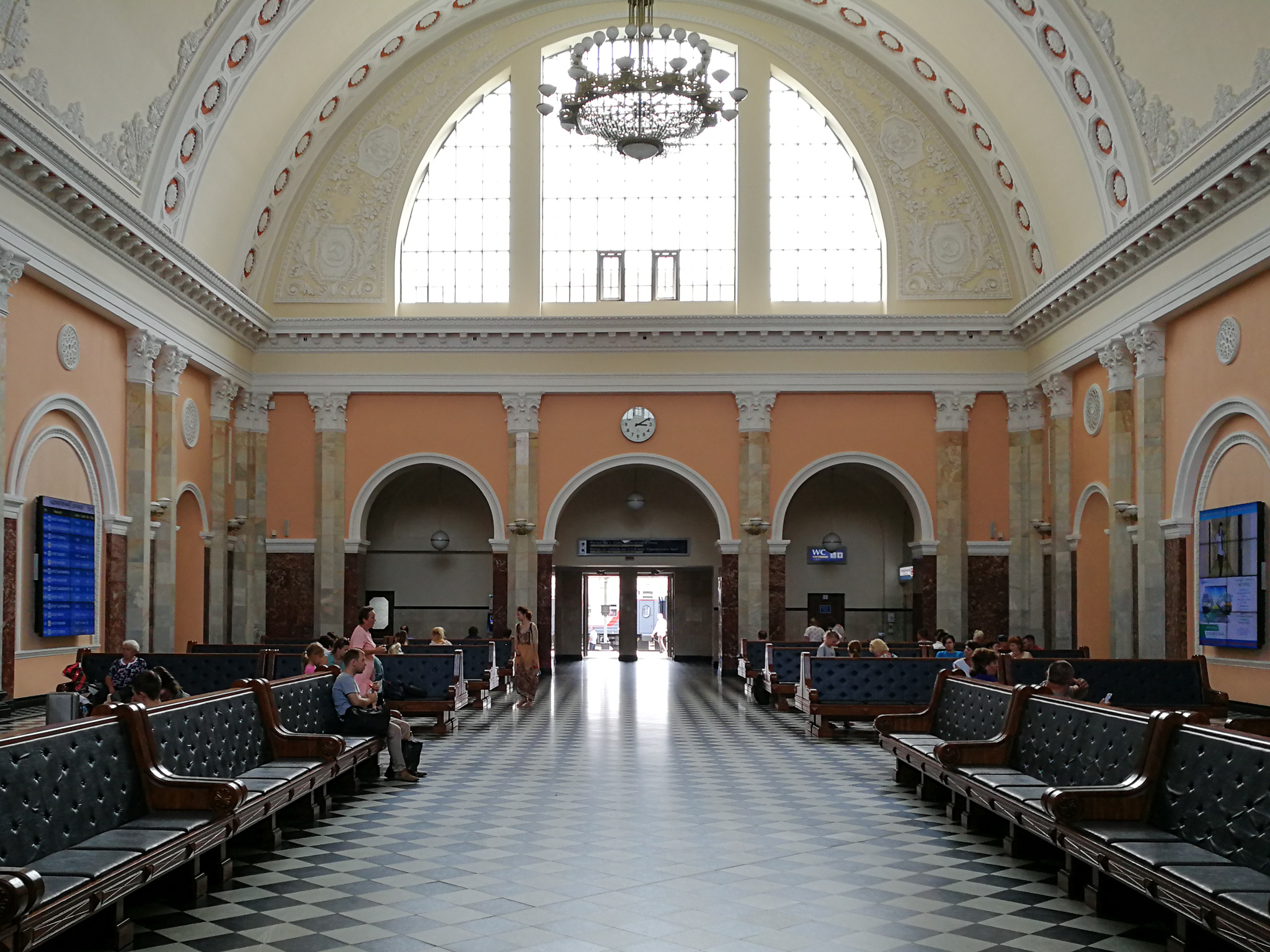 Brest-Central railway station